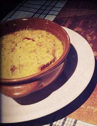 Acquacotta soup served at Osteria Casa Tua in Milan, Italy